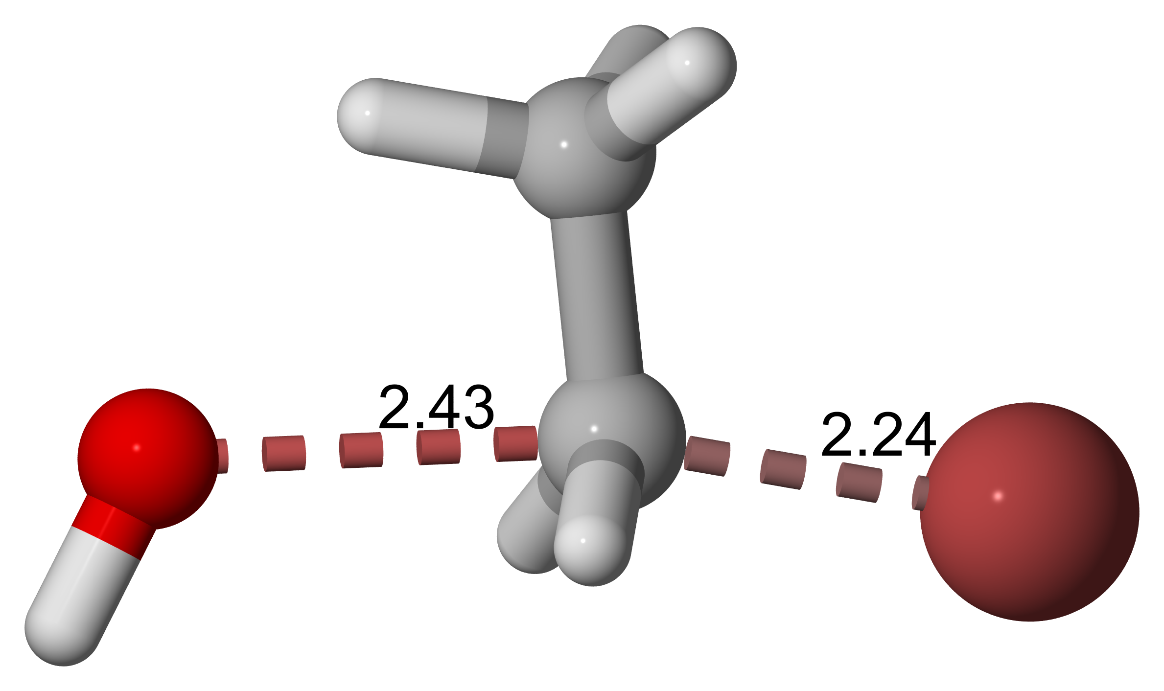 TS geometry, B3LYP/6-31+G*, gas phase. Image rendered using CYLView and POVRAY.